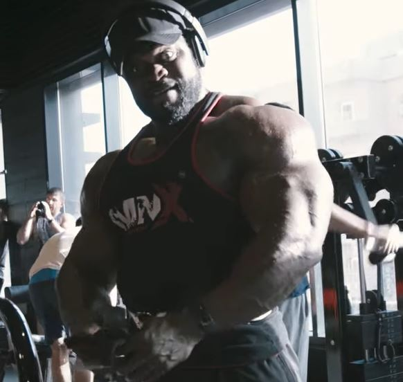 Brandon Curry during training in 2019